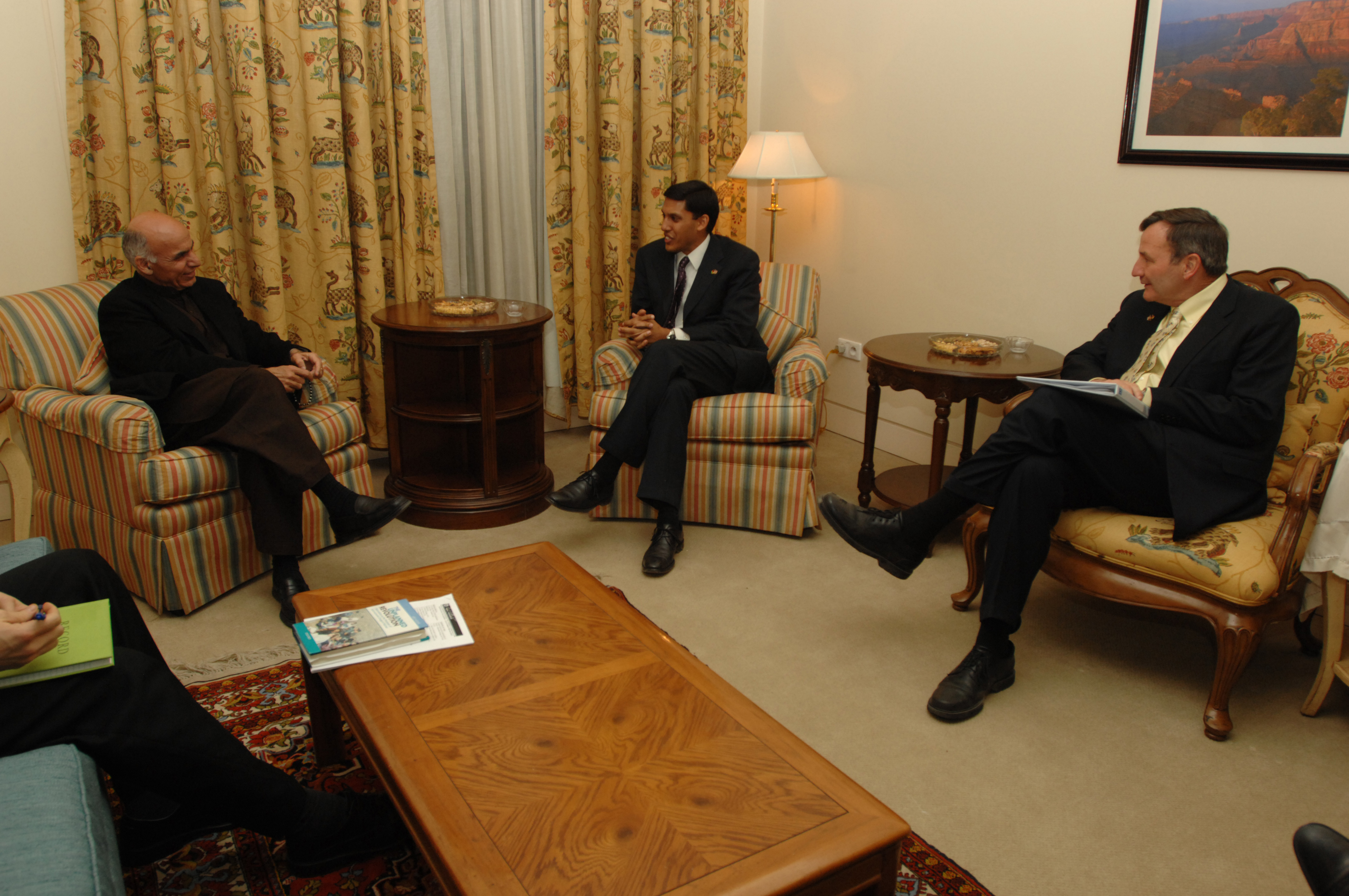 Dr. Rajiv Shah, Administrator of the United States Agency for International Development (USAID), meets with Dr. Ashraf Ghani Ahmadzai and U.S. Ambassador Karl W. Eikenberry at the U.S. Embassy in Kabul, Afghanistan on February 8, 2011.